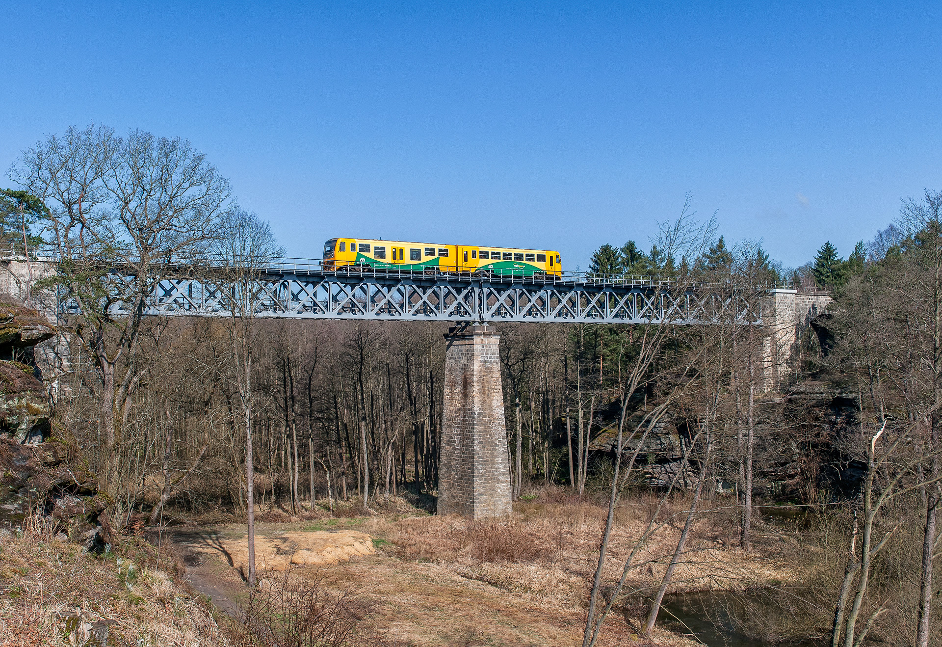 Railway bridge in Karba near Česká Lípa, 2015